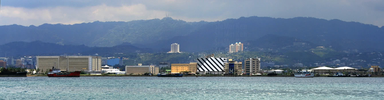 Skyline of Mandaue